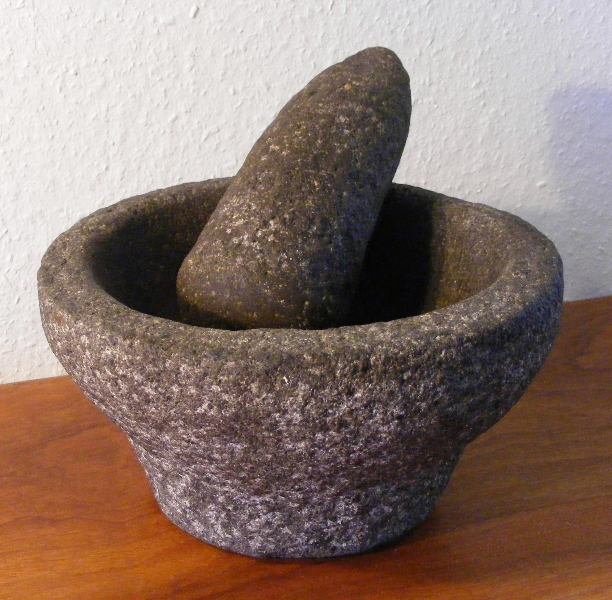 Stone mortar and pestle to grind sambal in Indonesia